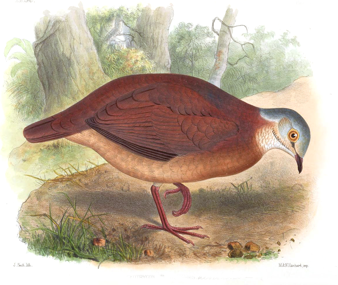 Geotrygon albifacies